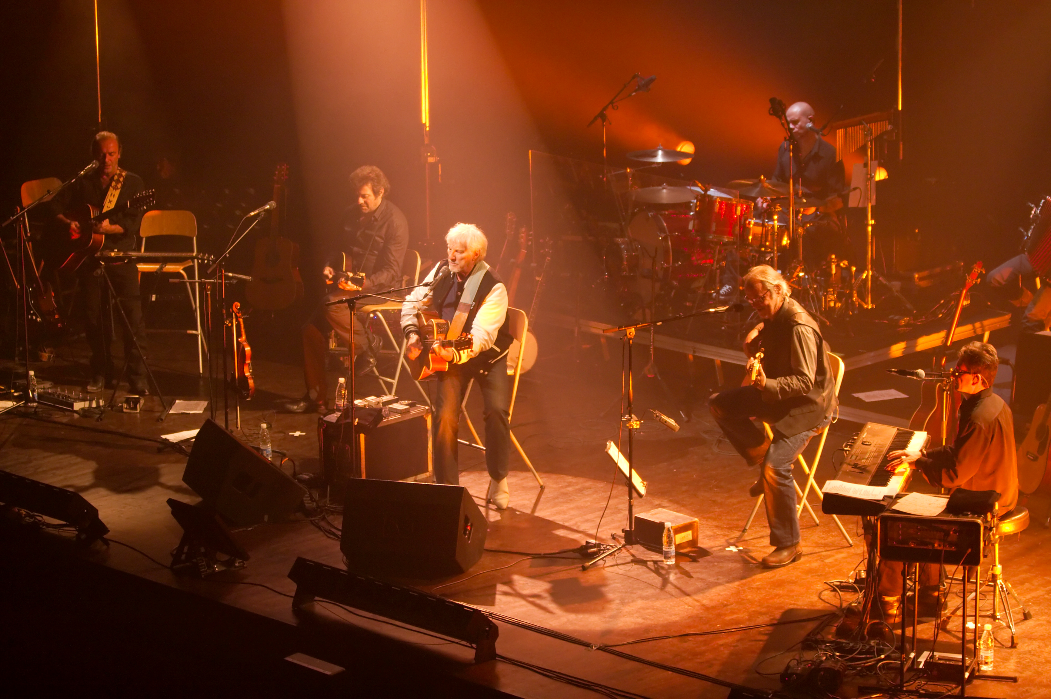 Hugues Aufray live at Aix-en-Provence (France) for the French song festival 2009.